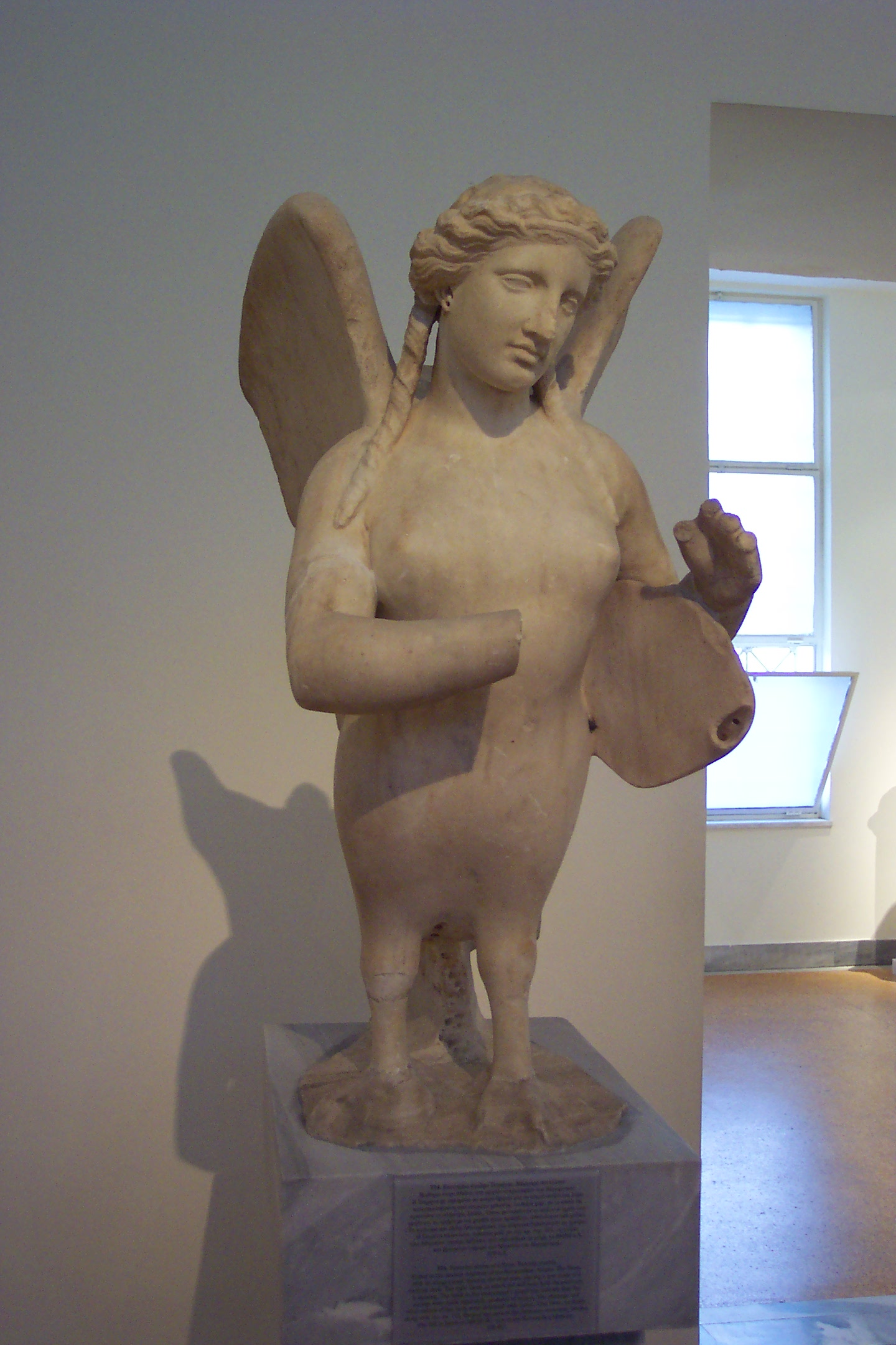 Funerary statue of a siren in Pentelic marble, found in the Necropolis of Ceramics at Athens. The siren laments the dead, wings folded, playing on a tortoiseshell lyre. The right hand, which would have held the plectrum, is missing. The strings, probably made of bronze, would have been attached to the holes which can be seen in the body of the instrument. The plumage and other parts would have been picked out in colour. The statue flanked the stele of the Athenian warrior Dexileo who fell in combat in 394/393 BC (Work of 370BC, National Archeological Museum, Athens).